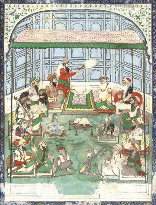 The ten Sikh gurus, in a depiction from the early 1700's (downloaded Mar. 2007) "THE TEN SIKH GURUS, INDIA, EARLY 18TH CENTURY. Gouache on paper highlighted with gilt, depicting Guru Nanek with his consorts Mardana and Bala and the nine other gurus seated under a pink and gold canopy with green trim, at centre covered bowls of parshad, set within an architectural border of white stone and floral sprays, mounted, framed and glazed - 27 1/2 x 23in. (70 x 58.5cm.)."